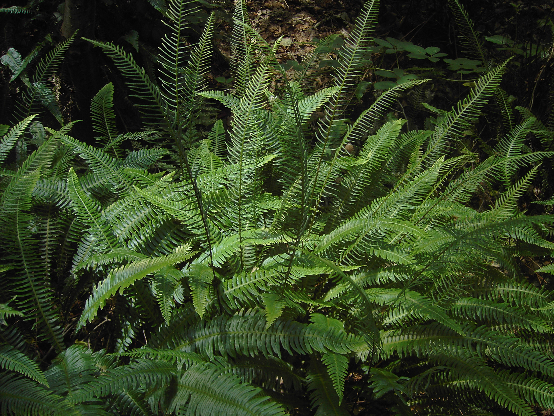 Fertile and sterile fronts at Tillegem bos, Brugge, Belgium.